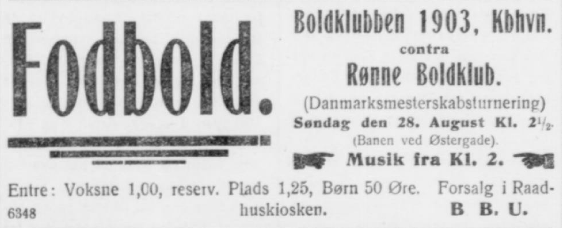 Advertisement for the one of four matches played on the first match day of 1927–28 Danmarksmesterskabsturneringen - The text reads: Fodbold: Boldklubben 1903, Kbhvn. contra Rønne Boldklub. (Danmarksmesterskabsturnering) Søndag den 28. August Kl. 2½. (Banen ved Østergade). → Musik fra Kl. 2. ← Entre: Voksne 1,00, reserv. Plads 1,25, Børn 50 Øre. Forsalg i Raadhuskiosken. B. B. U. - 6348.